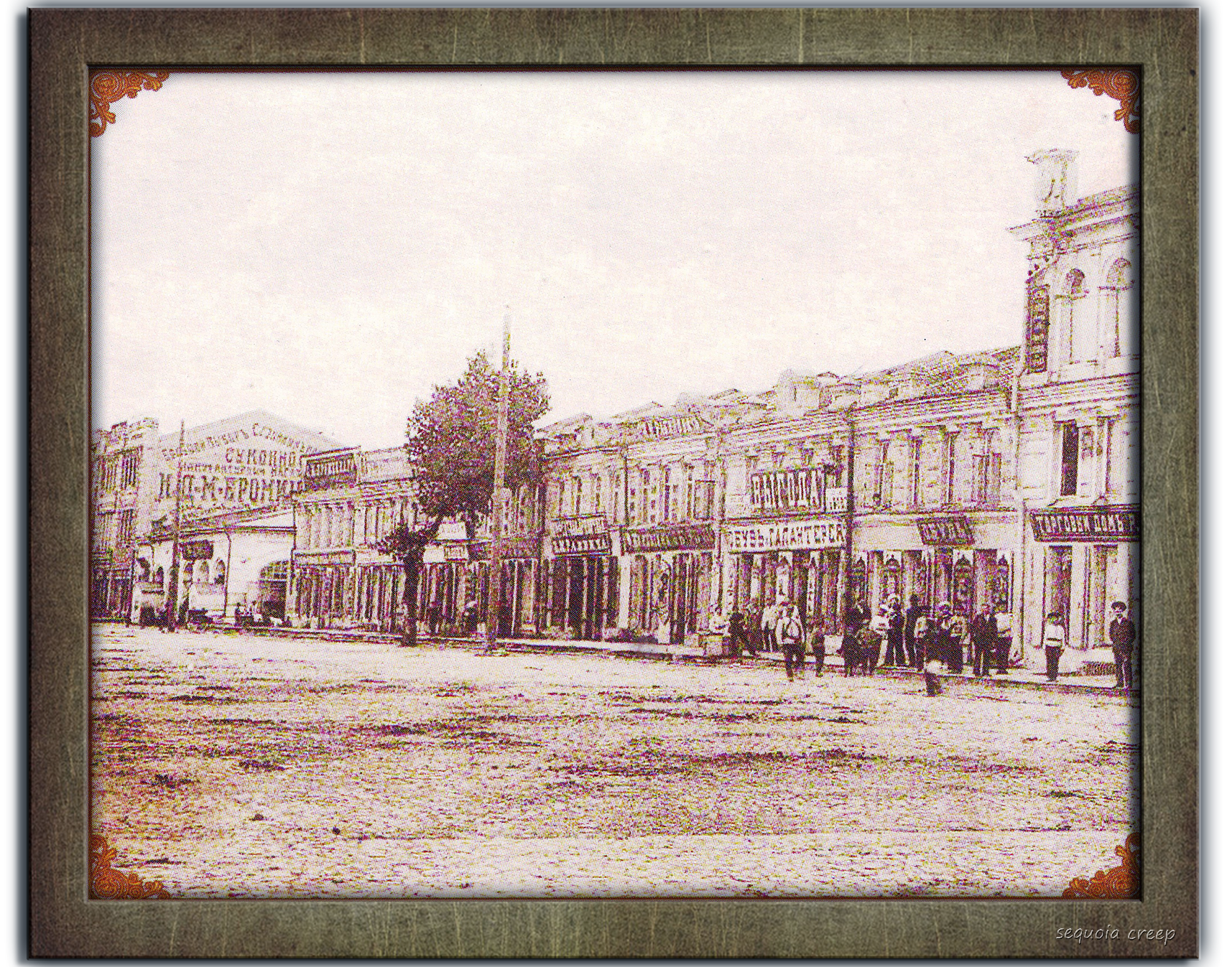 Trade street